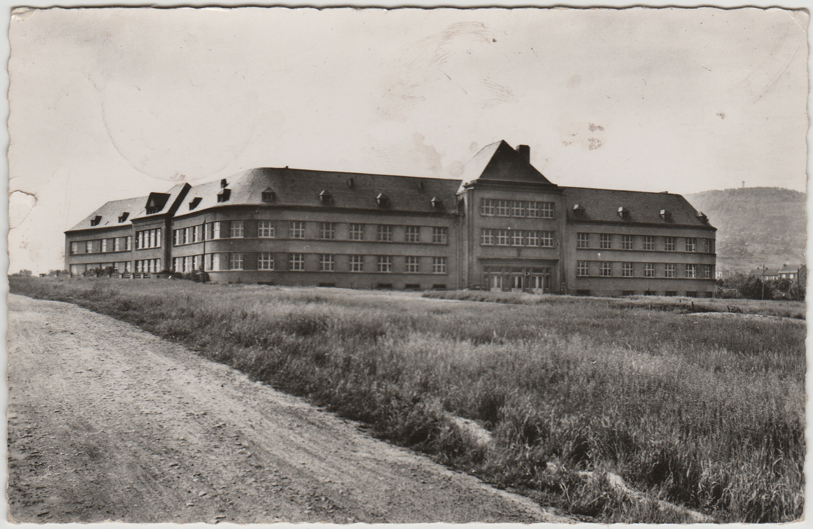 Le lycée après sa construction